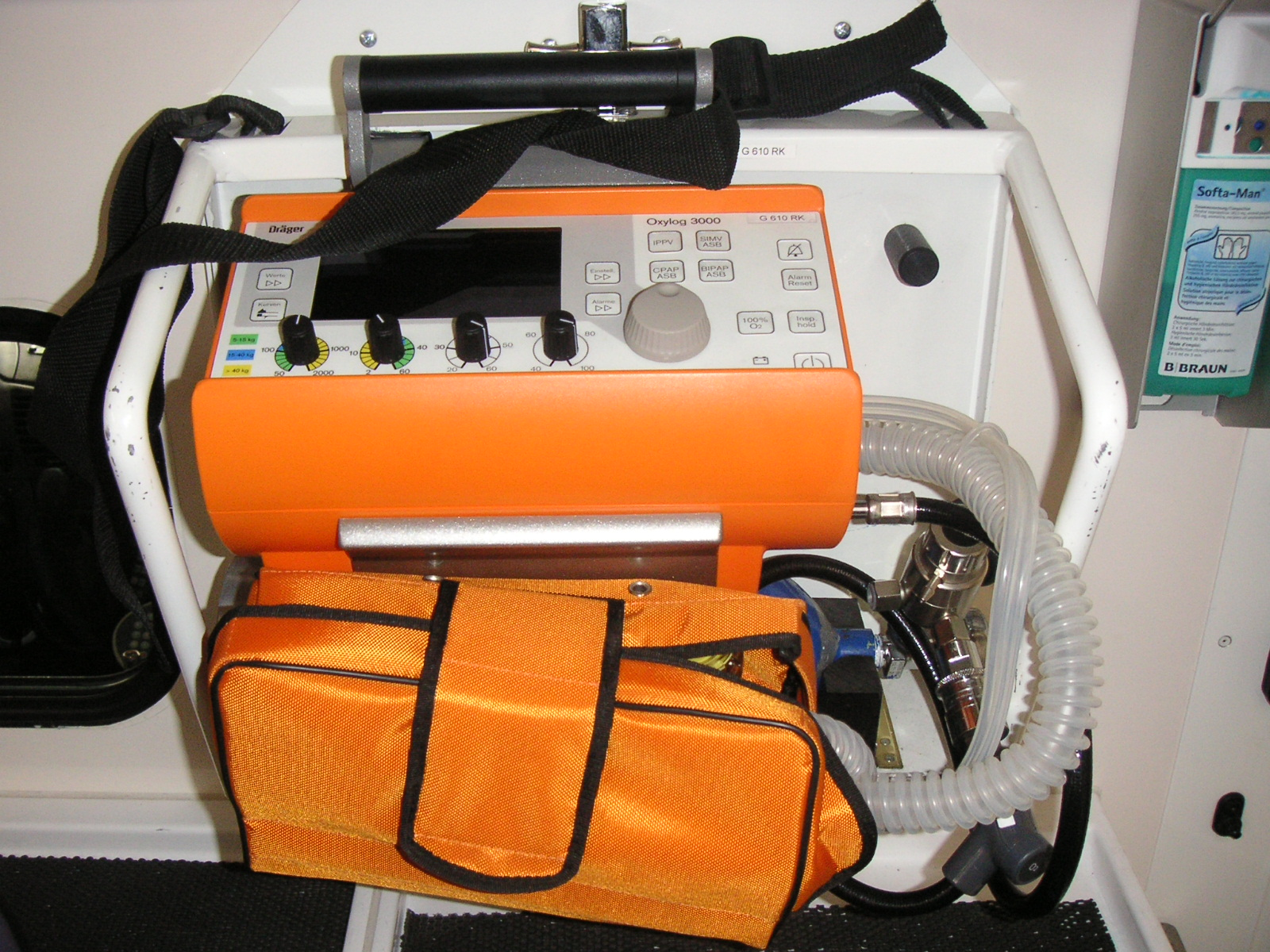 An Oxylog3000 respirator in an ambulance in Graz, Austria.